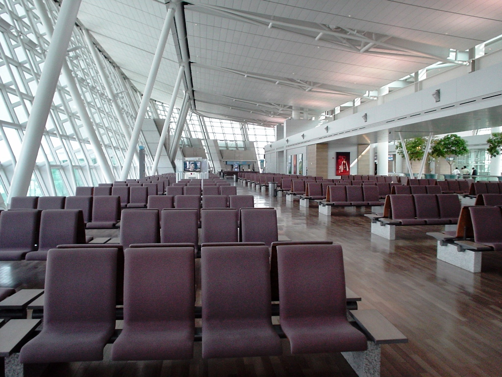 Gate at Incheon Airport